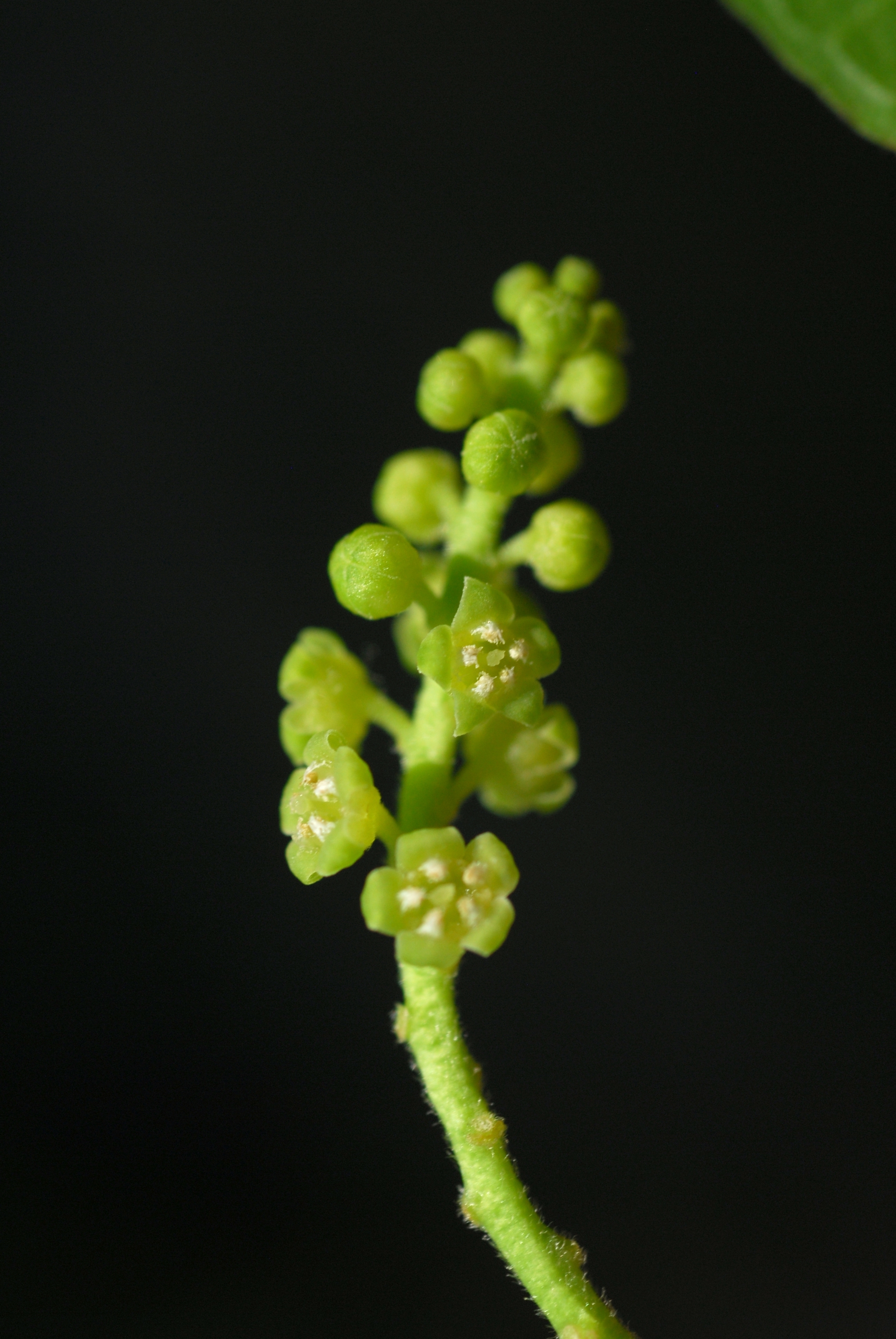 Pyrularia pubera Michx. - buffalo nut